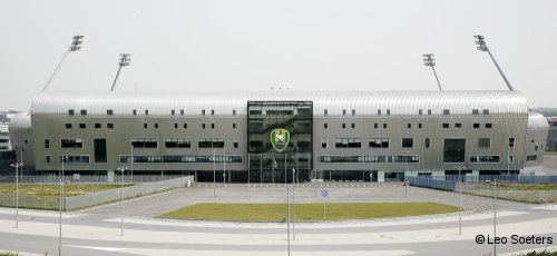 Kyocera stadion